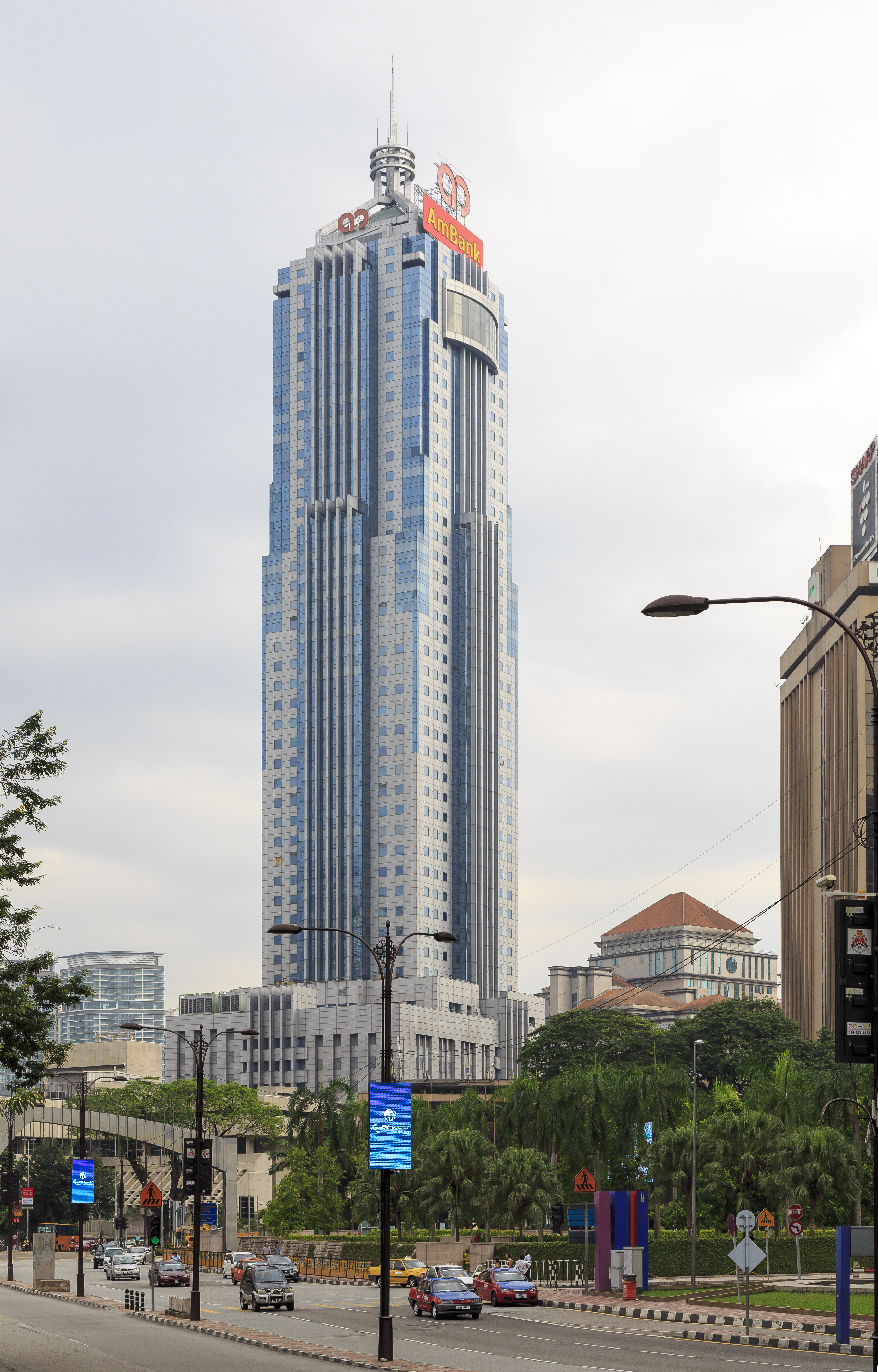 Kuala Lumpur, Malaysia: Menara AmBank (49 storeys)